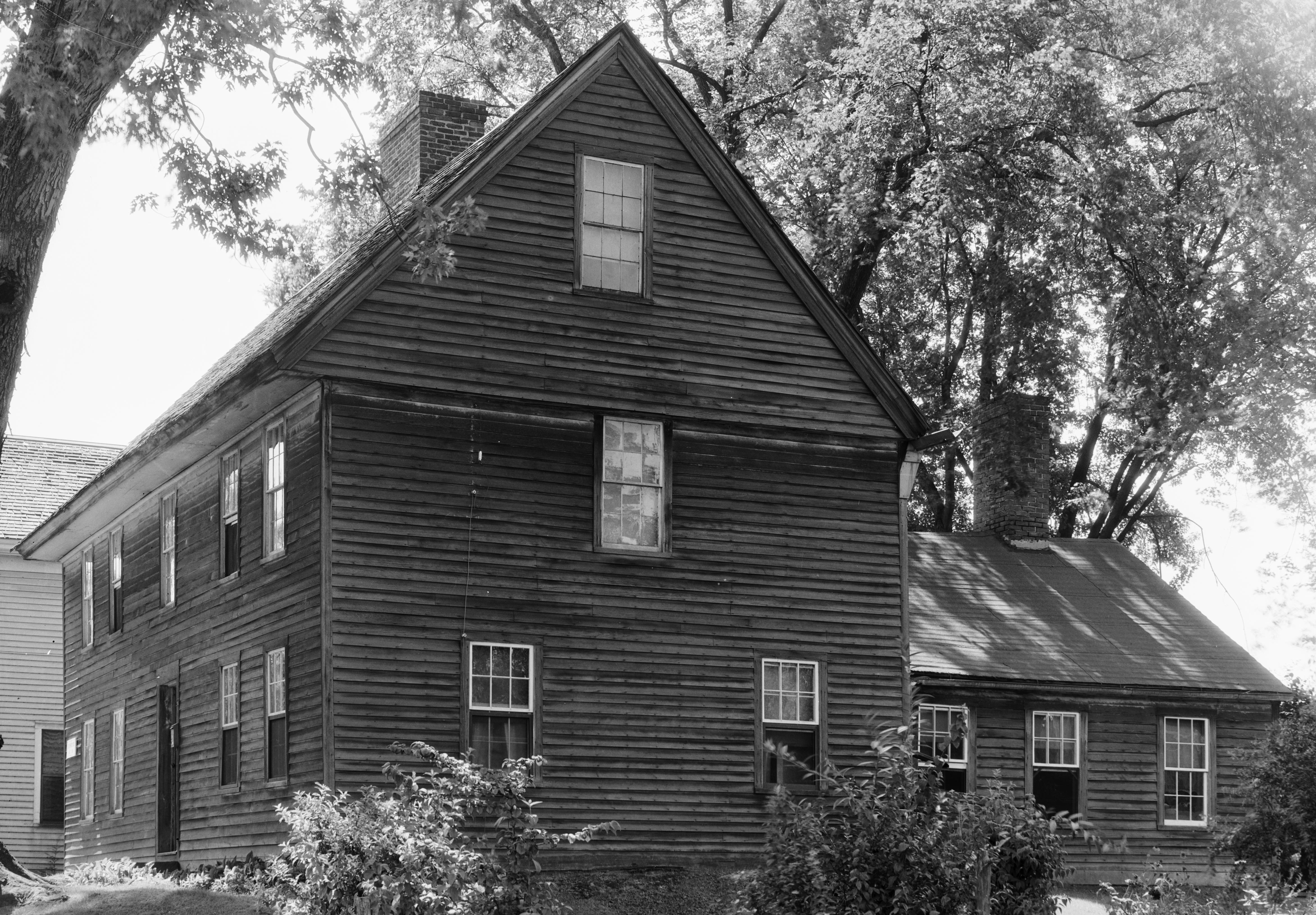 Exterior of the Buttolph-Williams House, located at 249 Broad Street in Wethersfield, Connecticut, United States. Built in 1692, the house has been declared a National Historic Landmark. It is the setting of part of Elizabeth George Speare's book The Witch of Blackbird Pond.